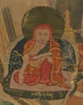 Shakyashribhadra (b.1127 - d.1225) famous Indian Budhist scholar of 12th Century